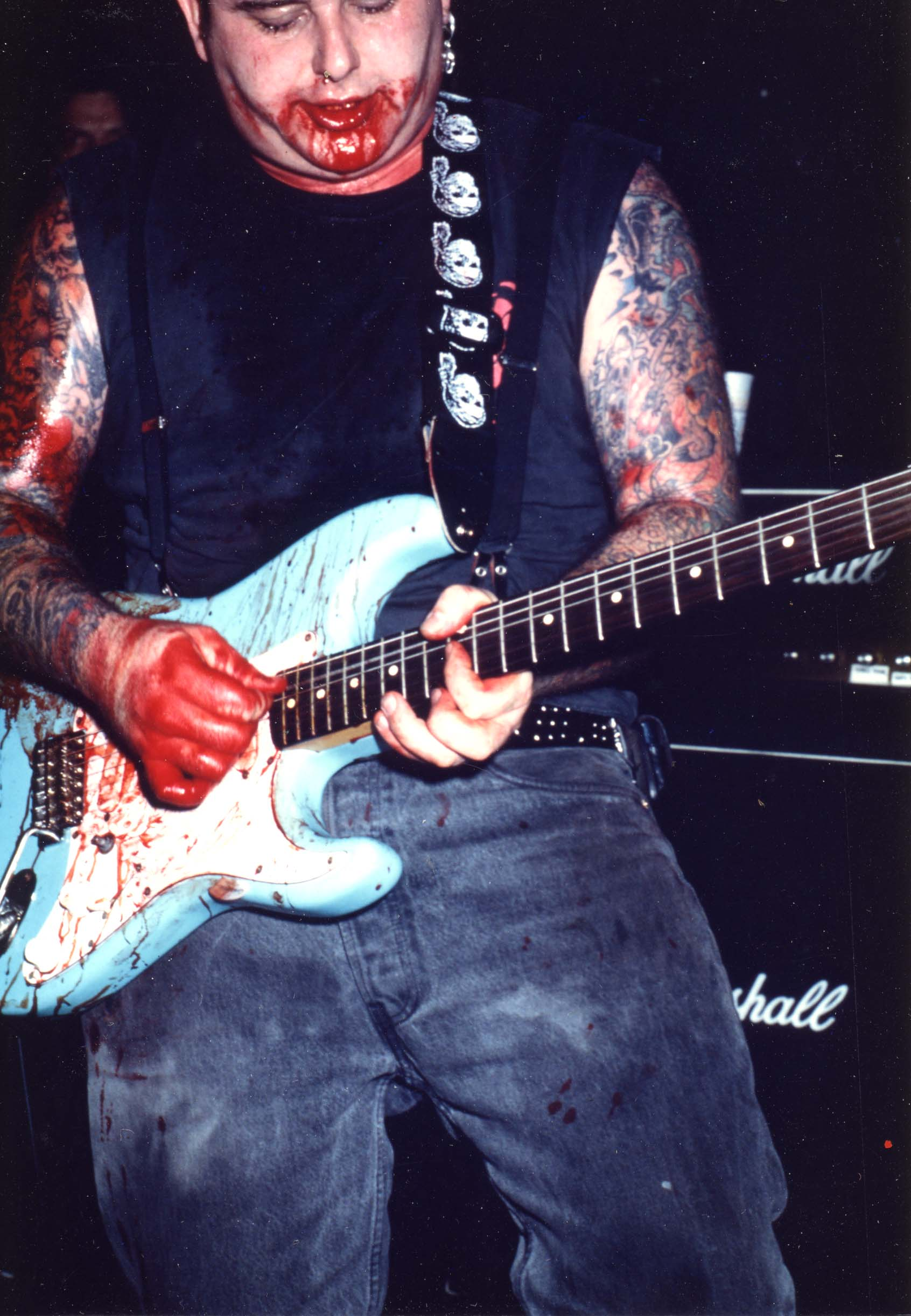 Guitarist for the Meteors psychobilly band